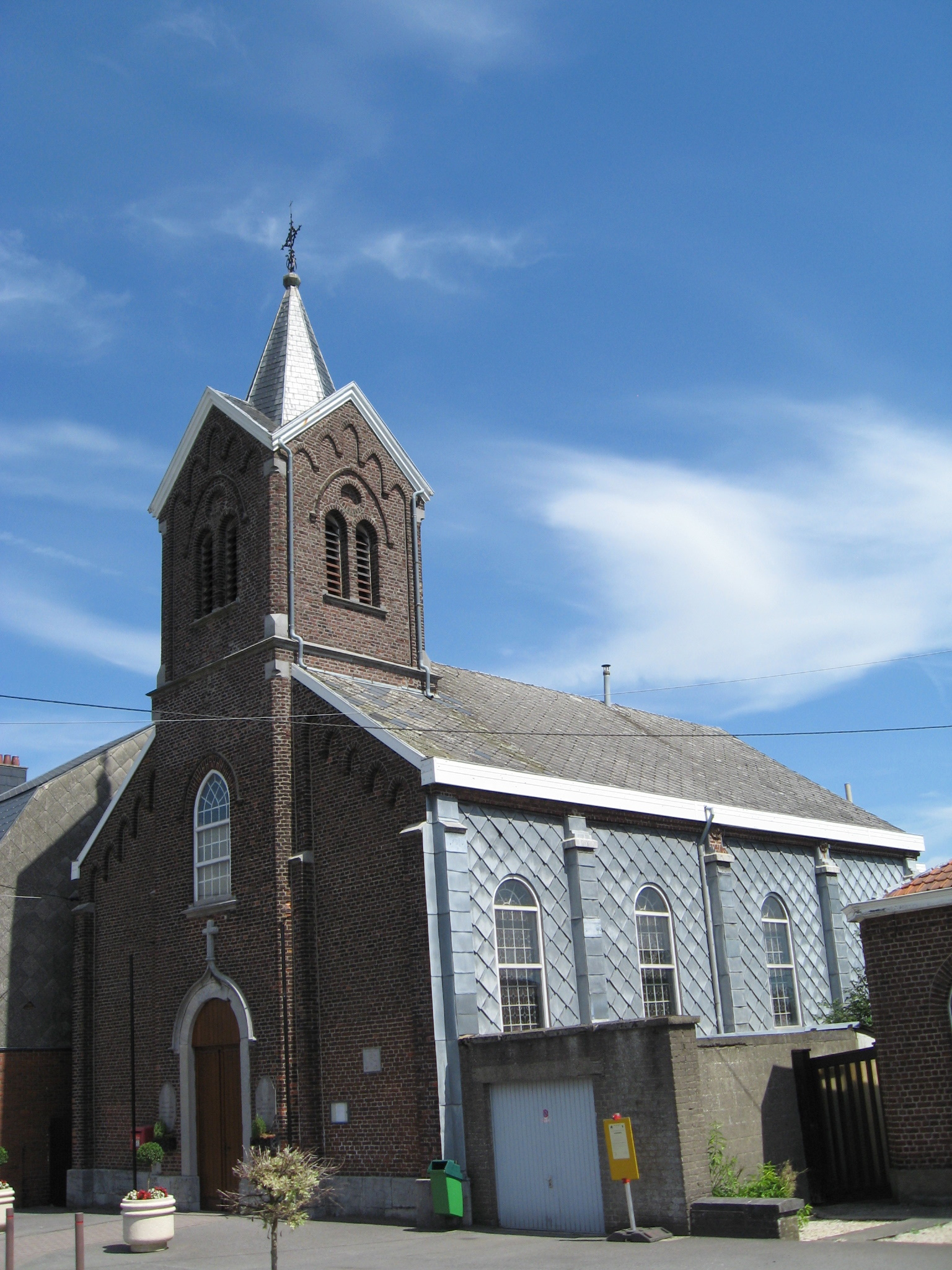 Church of Saint roch in Elsaute, Clermont, Thimister-Clermont, Liège, Belgium